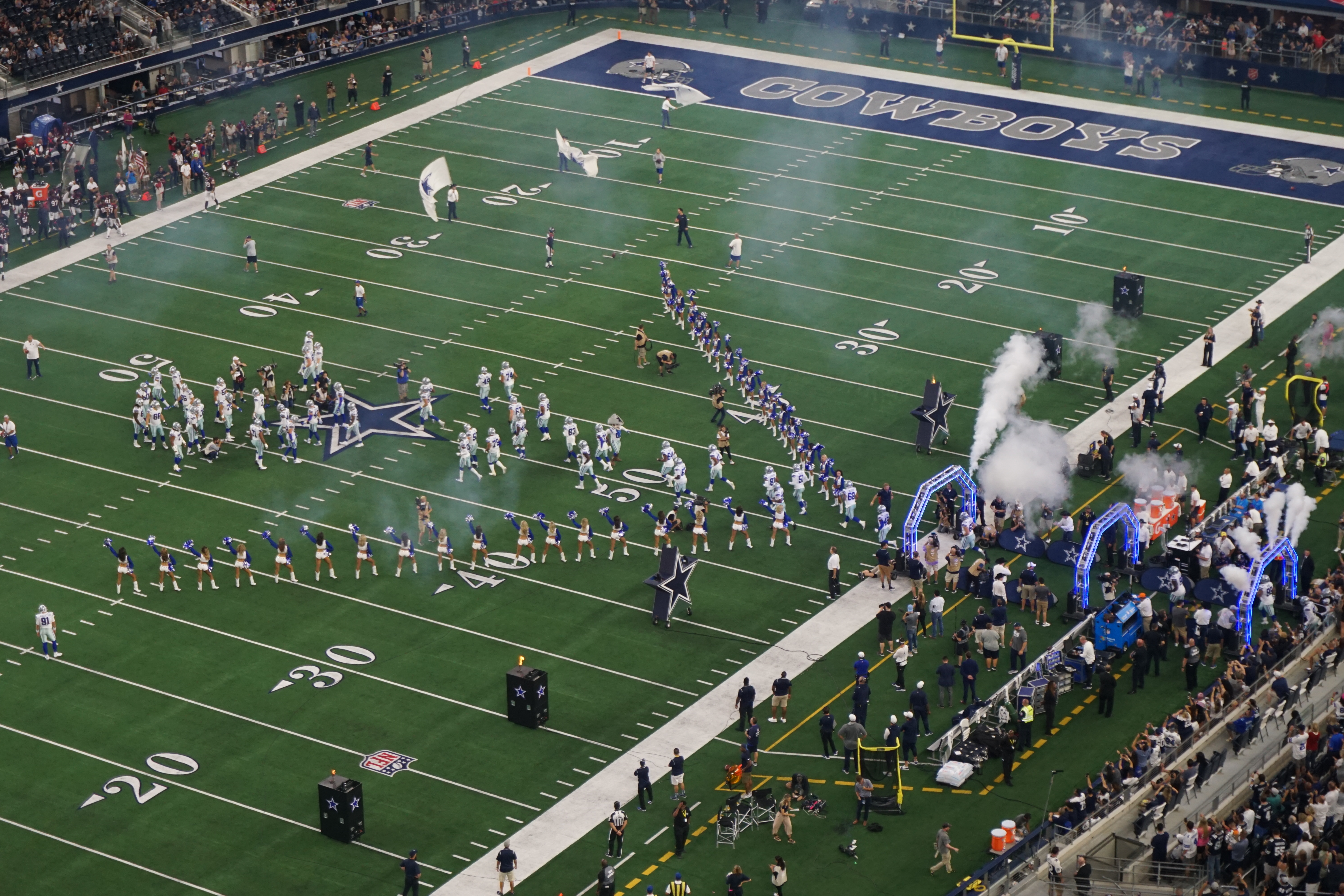 Dallas entering the field before the Houston Texans vs. Dallas Cowboys preseason game at AT&T Stadium in Arlington, Texas (United States). Dallas won 34–0.